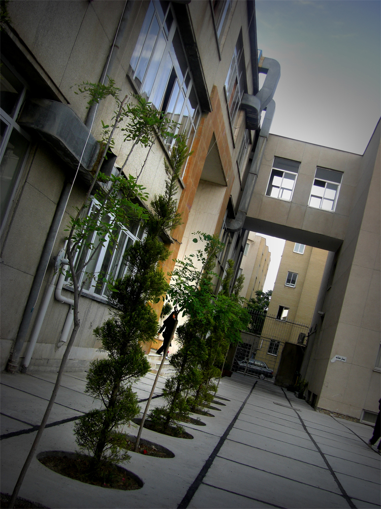 Mashhad Literature Faculty former building